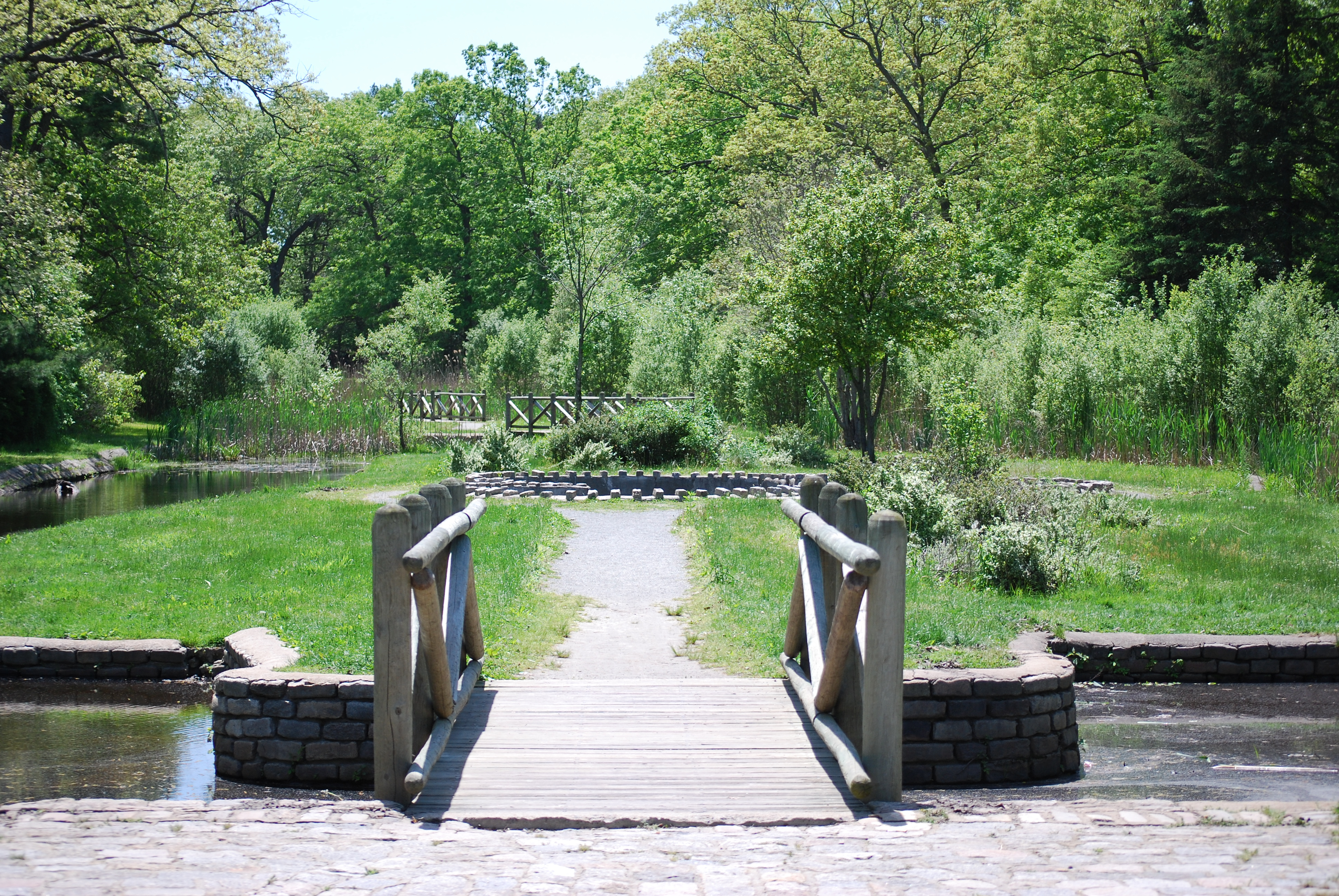 Friendship Garden at Slater Memorial Park.